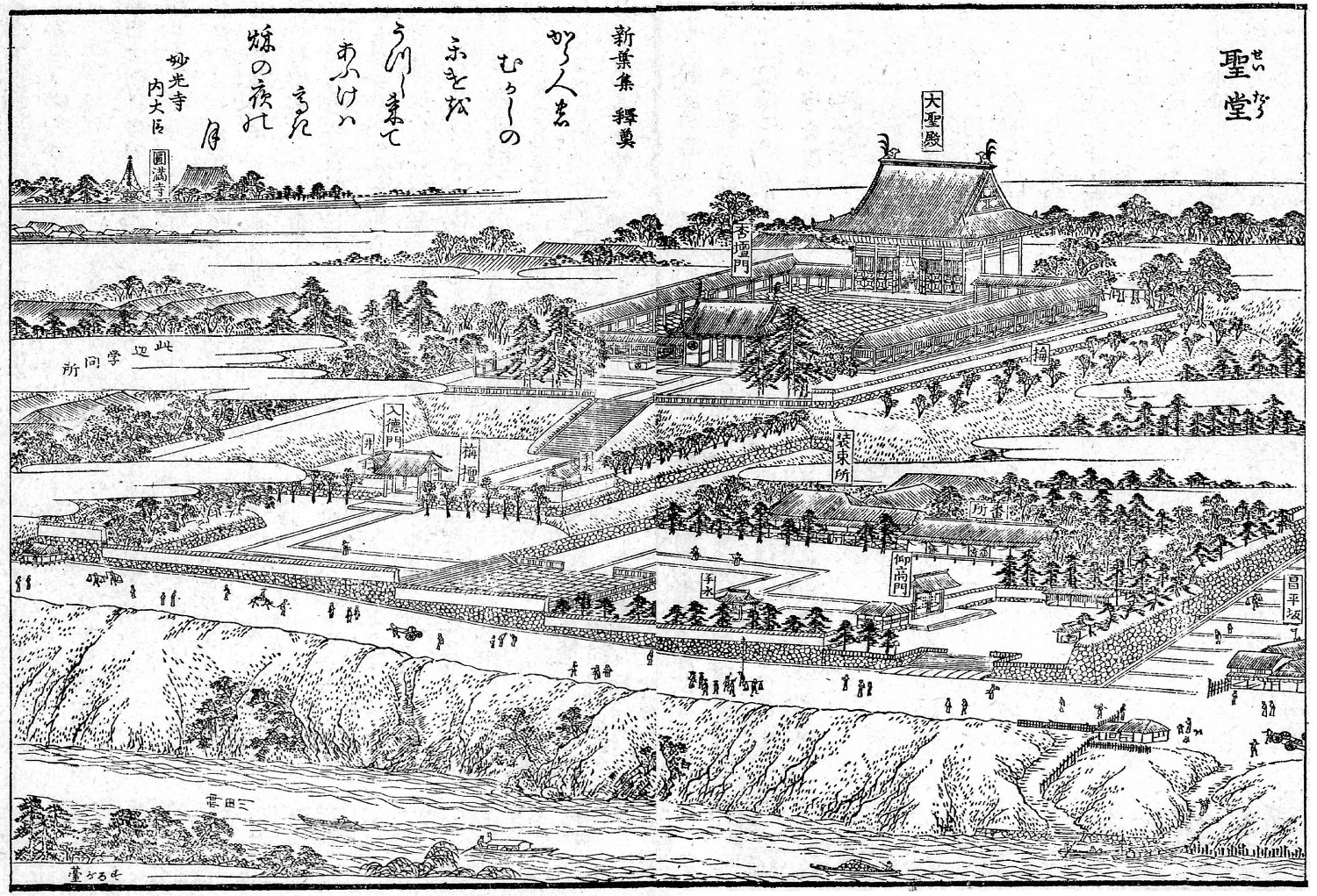 Yushima Seidô, Confucian temple in Tokyo